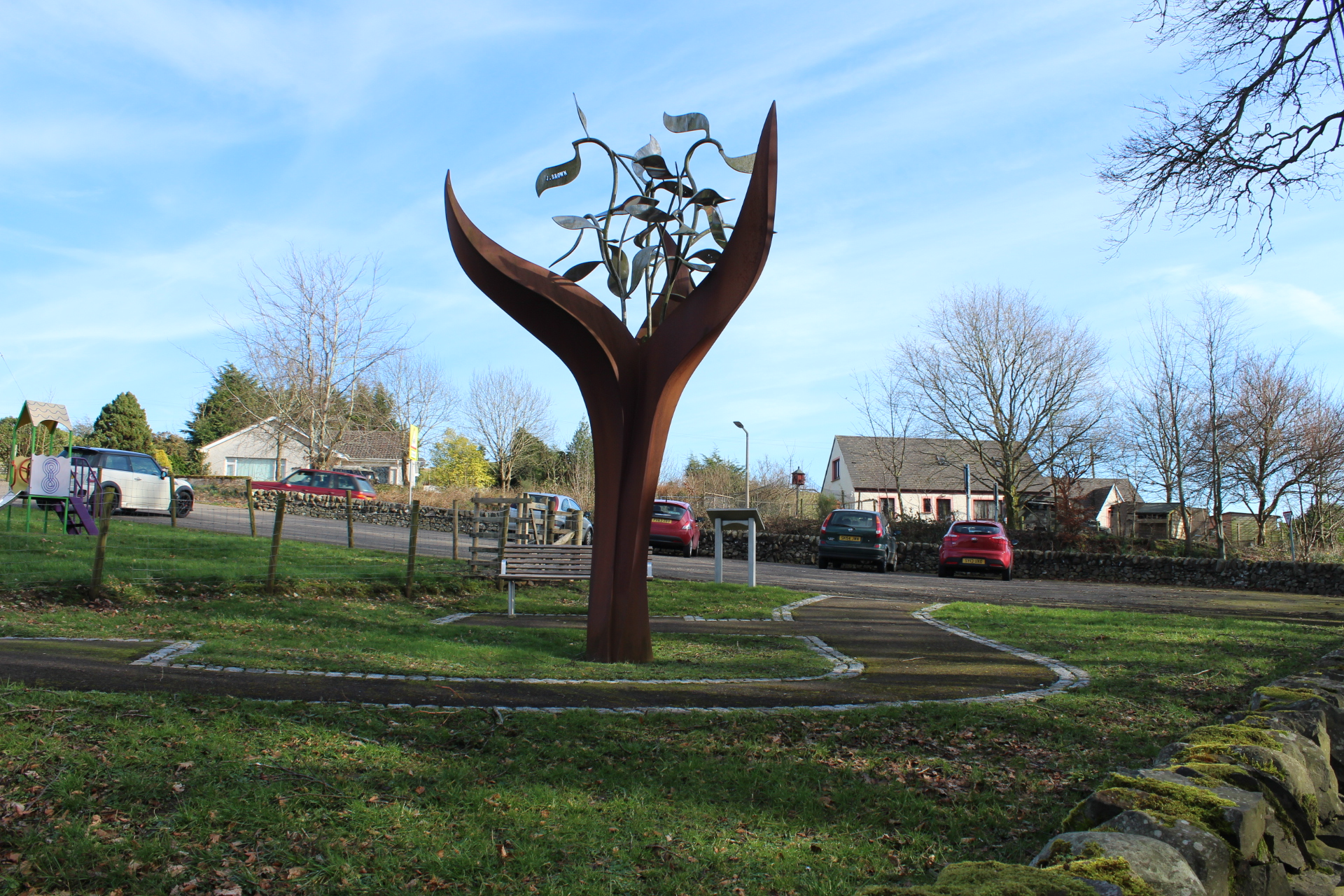 The Dalry Covenanter Sculpture, The Burning Bush